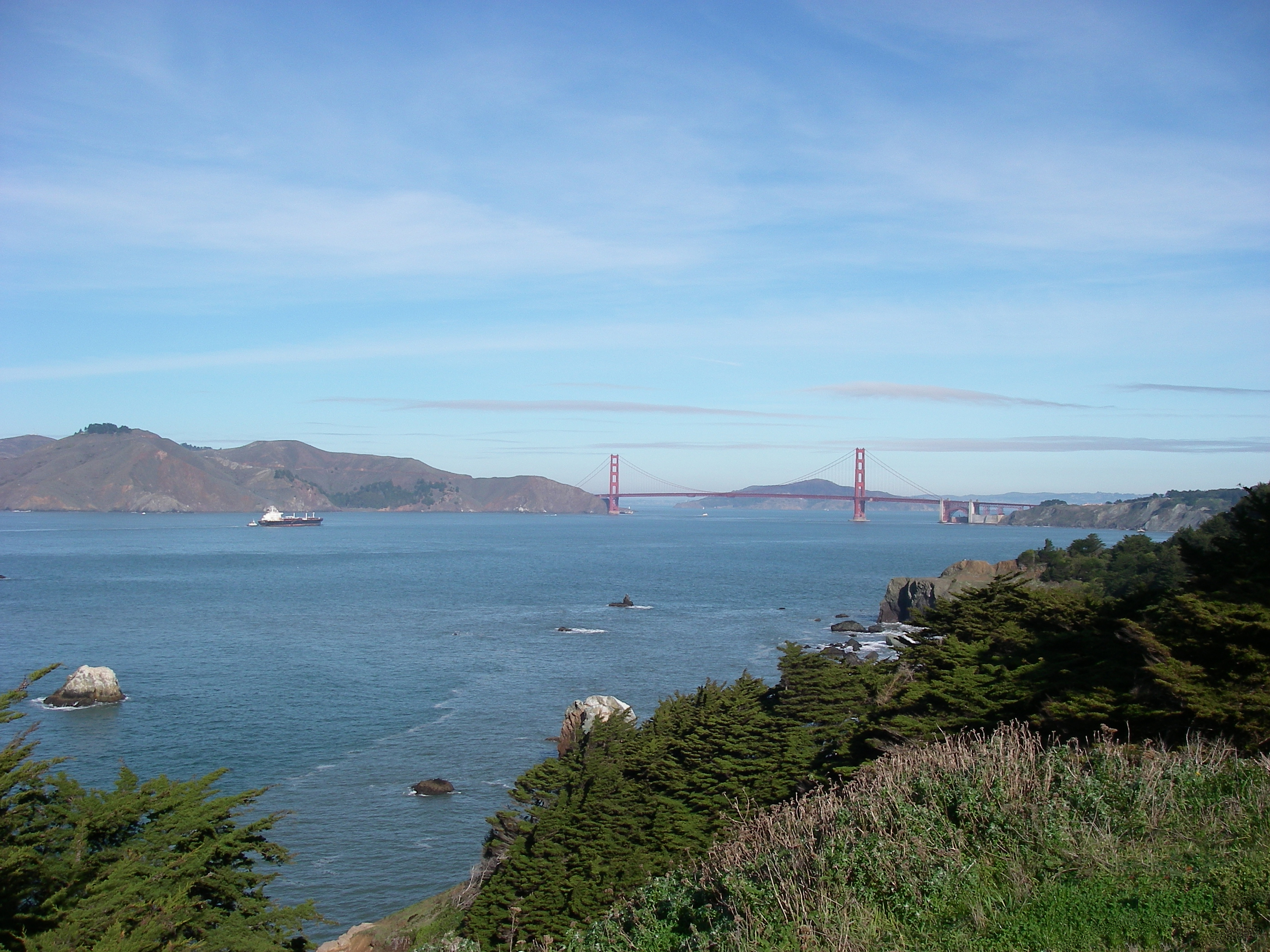 View of the Golden Gate and Lands End from Point Lobos, Golden Gate National Recreation Area.